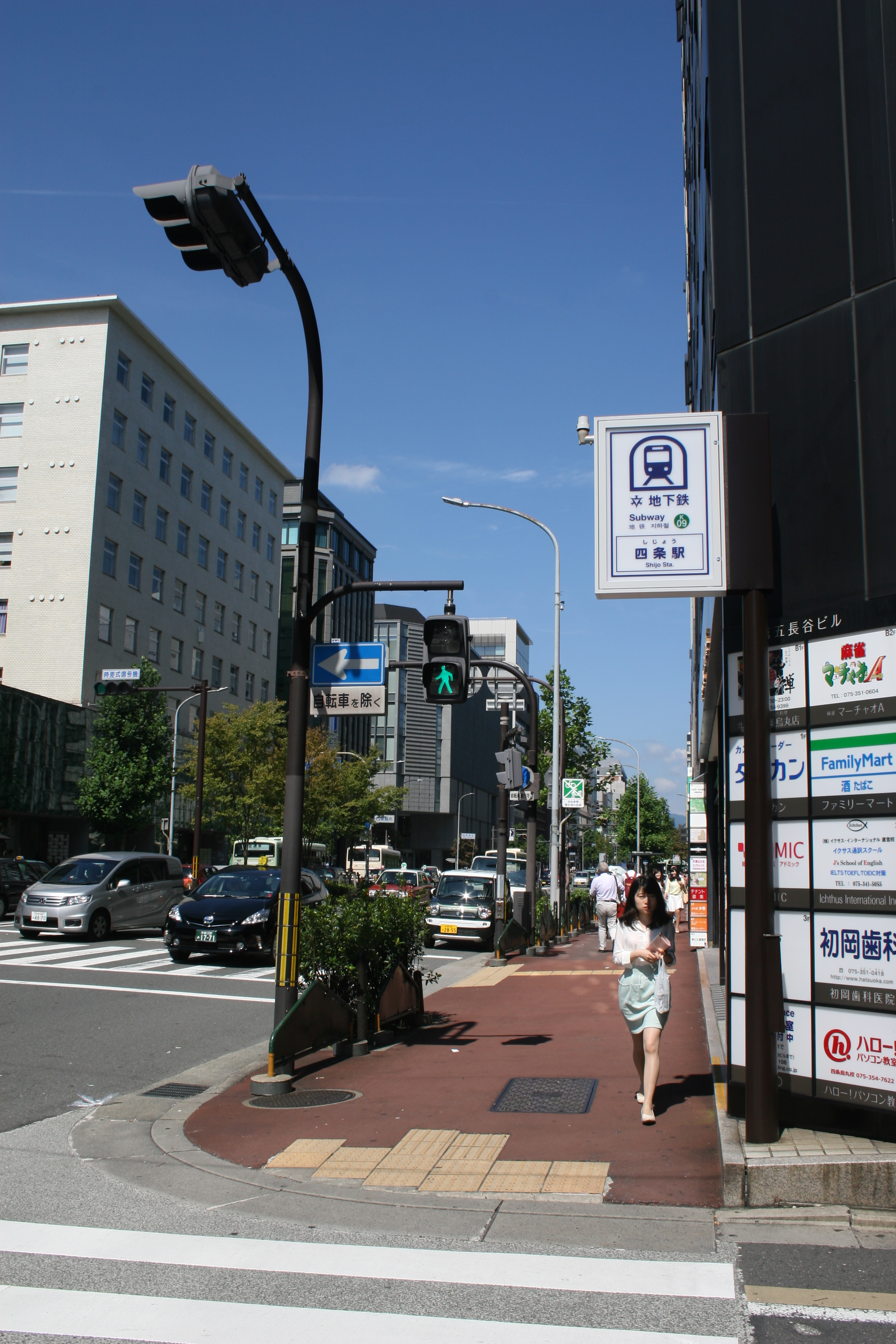 Sign of Exit No. 3 of Shijo Station on the Kyoto Subway Karasuma Line at north-east corner of Karasuma-Ayanokoji intersection in Shimogyo-ku, Kyoto